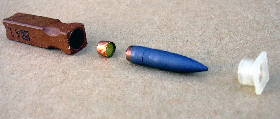 The 4.73 x 33mm caseless ammunition used in the G11 rifle, shown disassembled. The components are, from left to right, the solid propellant, the primer, the bullet, and a plastic cap that serves to keep the bullet centered in the propellant block.